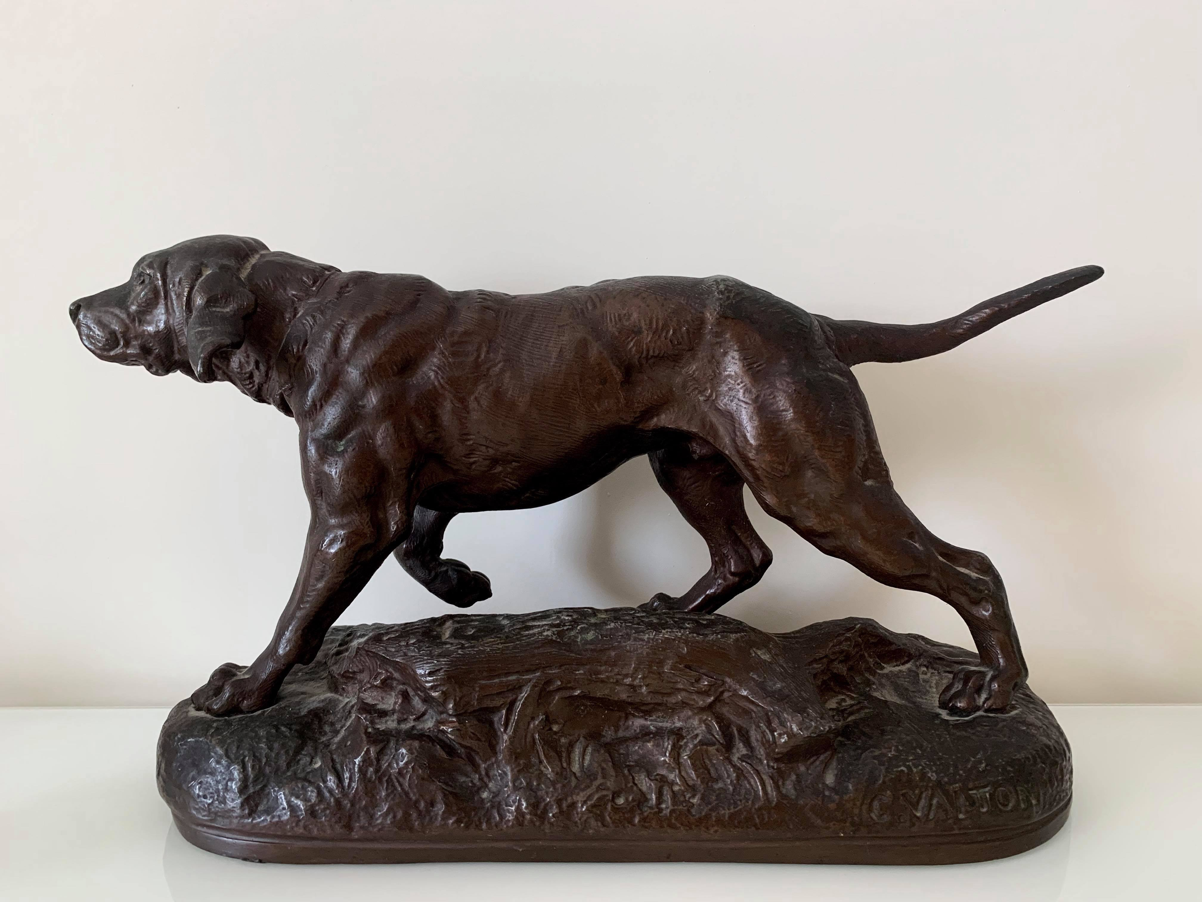 Patinated bronze sculpture representing a hunting dog attributed to Charles Valton (1851-1918), made by the end of the XIXth century. Unknown location.